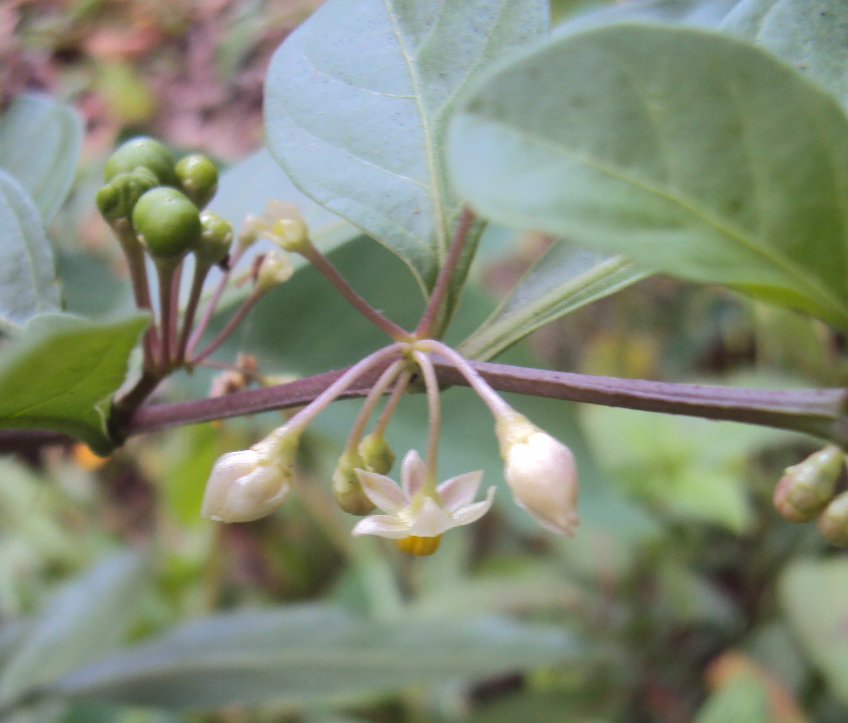 Solanum diphyllum